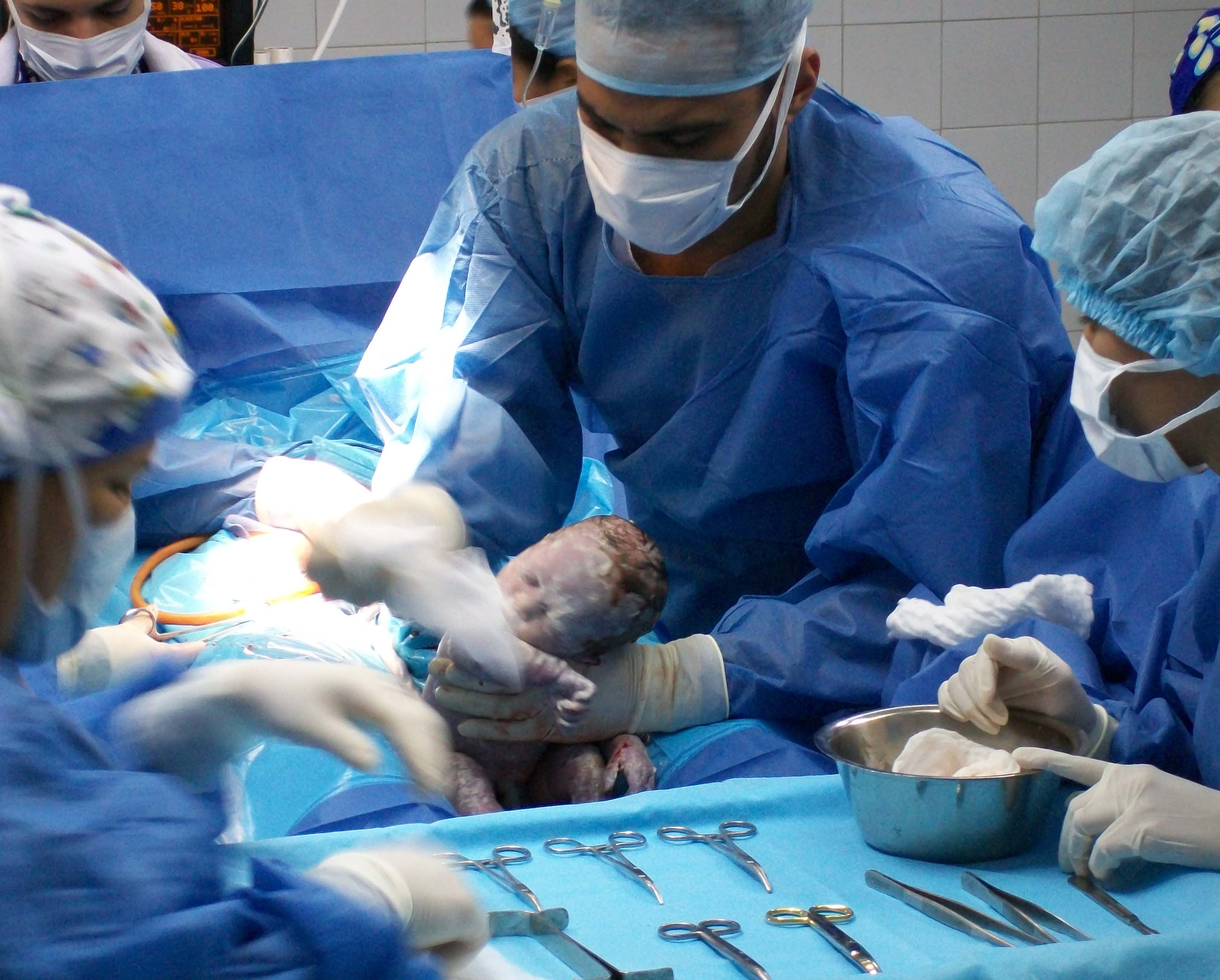 Caesarian newborn baby, Maracay, Venezuela.